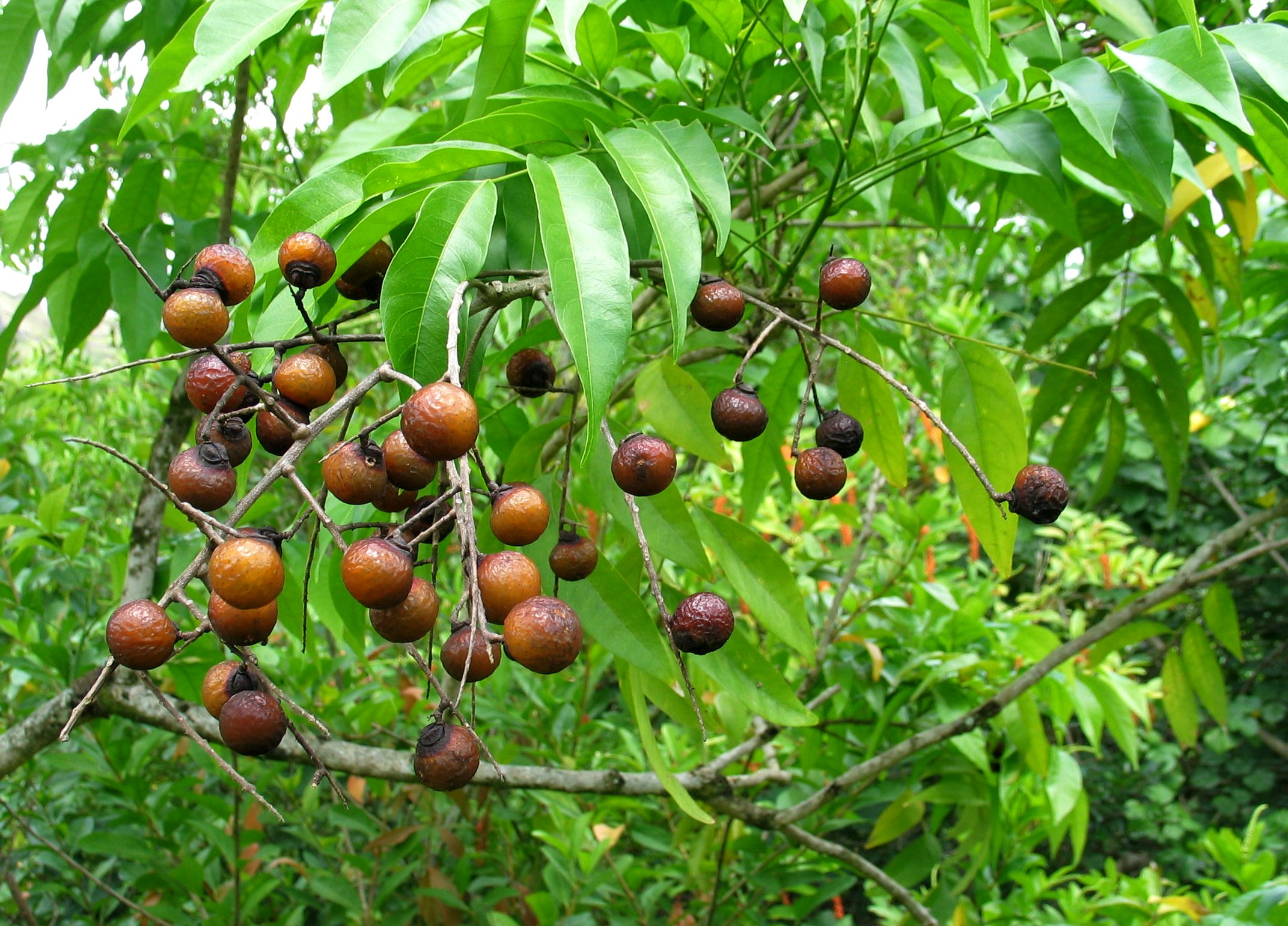 Mānele, Aʻe, or Soapberry Sapindaceae Indigenous to the Hawaiian Islands (Hawaiʻi Island only) Oʻahu (Cultivated) Apparently the pulp of the fruit was used by early Hawaiians as a soap for shampooing hair and washing clothes in the past. More at: NPH00001